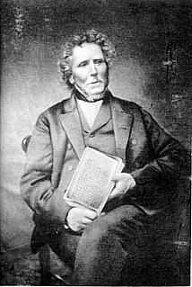 Photograph of the prolific Scottish inventor and author, James Bowman Lindsay